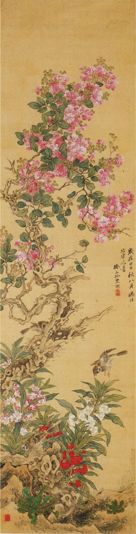 Birds and Flowers after Chang Qiugu part 1 ;pair of hanging scrolls,colors on silk 絹本着色